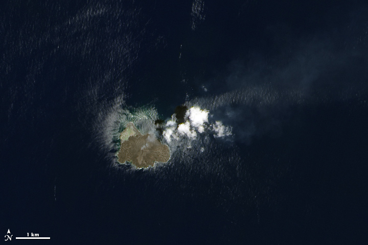 Nishino-shima in July 2014